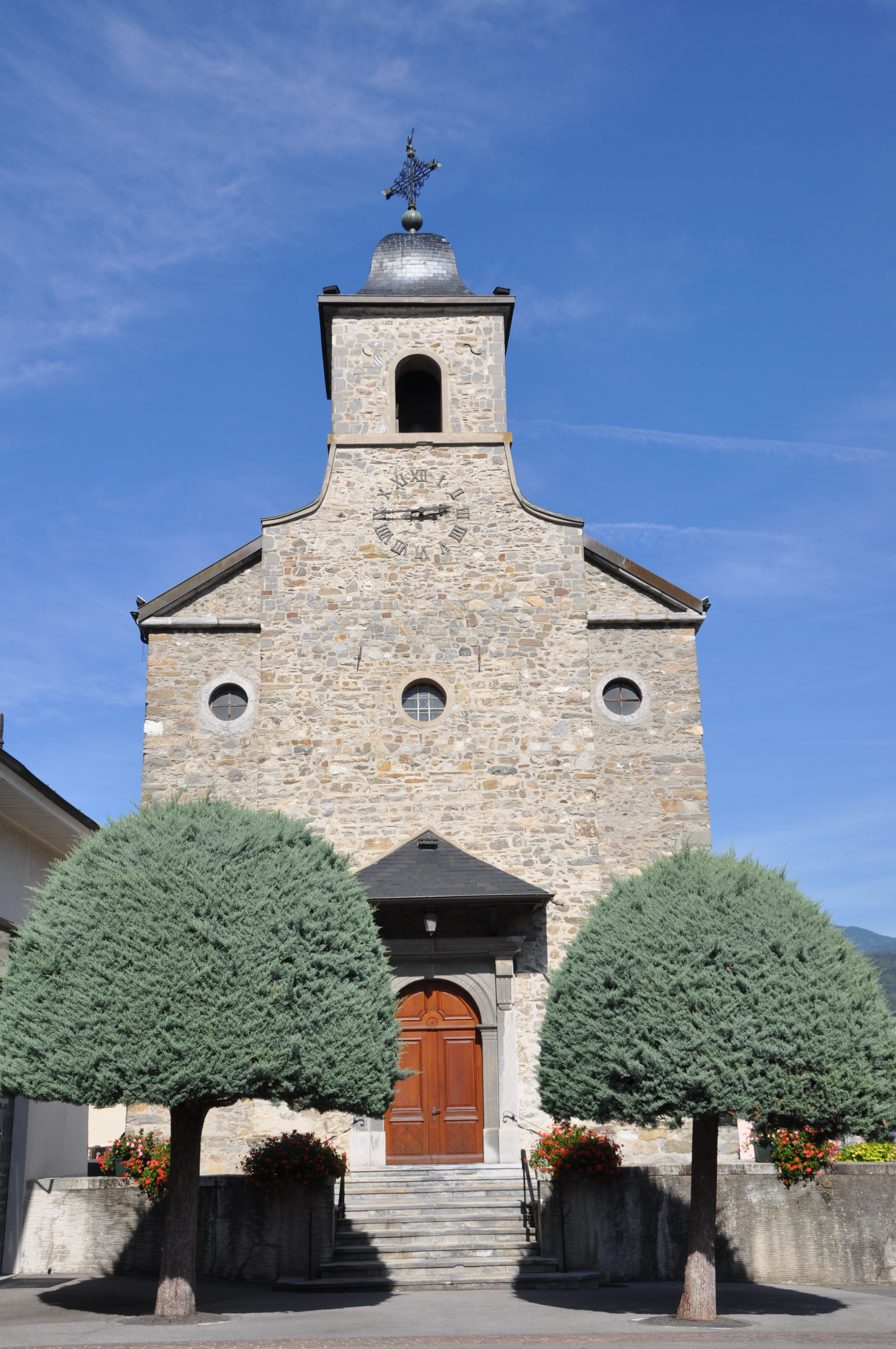 Église Saint-Jean-Baptiste, clocher et cure avec inscriptions romaines